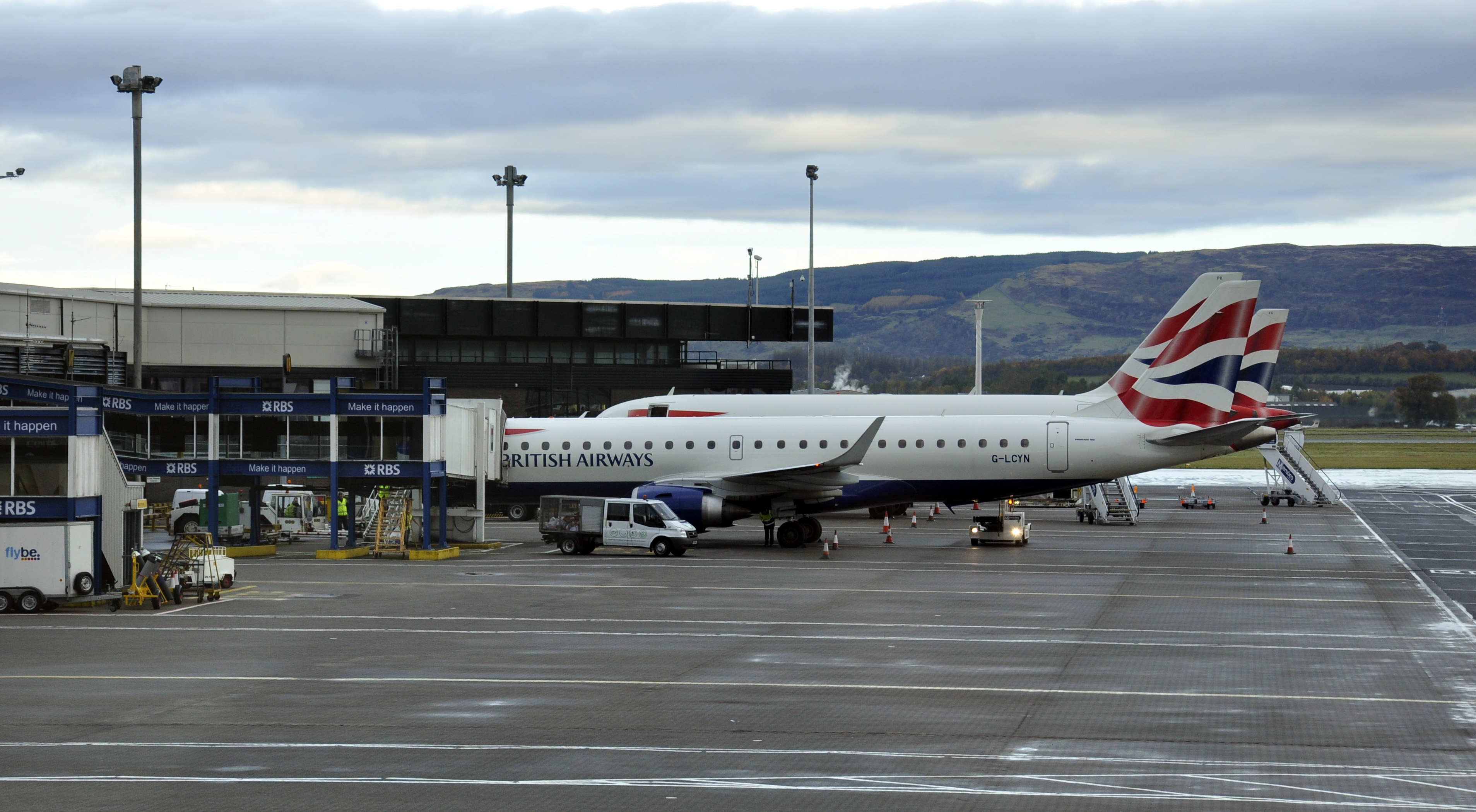 Three British Airways jets at Glasgow International Airport